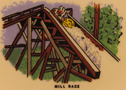 Faithful reproduction of a pre-1978 illustration on an ashtray.